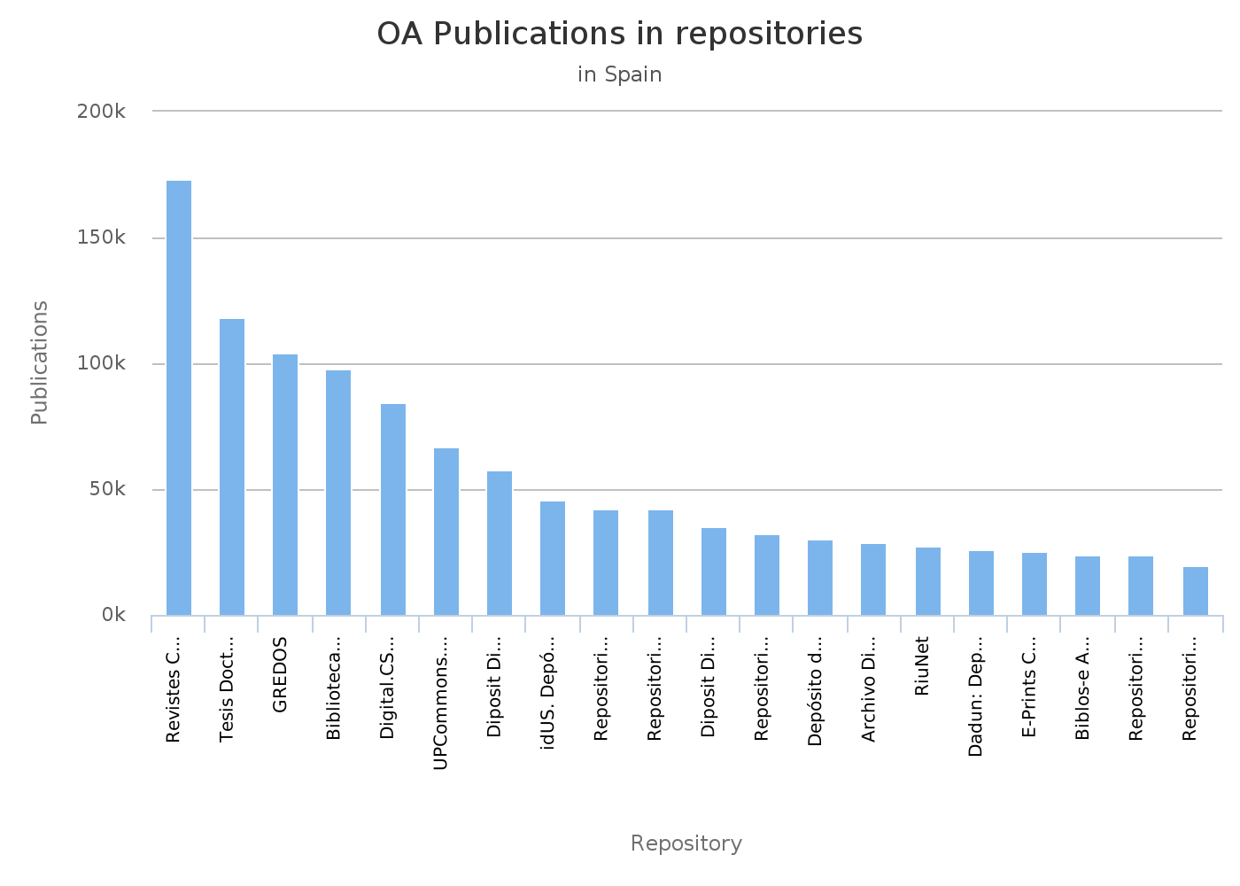 Bar graph describing open access to scholarly communication in Spain. Largest repositories: Revistes Catalanes amb Accés Obert, Tesis Doctorals en Xarxa, GREDOS (of Universidad de Salamanca), Biblioteca Virtual del Patrimonio Bibliográfico (of Ministry of Culture), and Digital.CSIC.